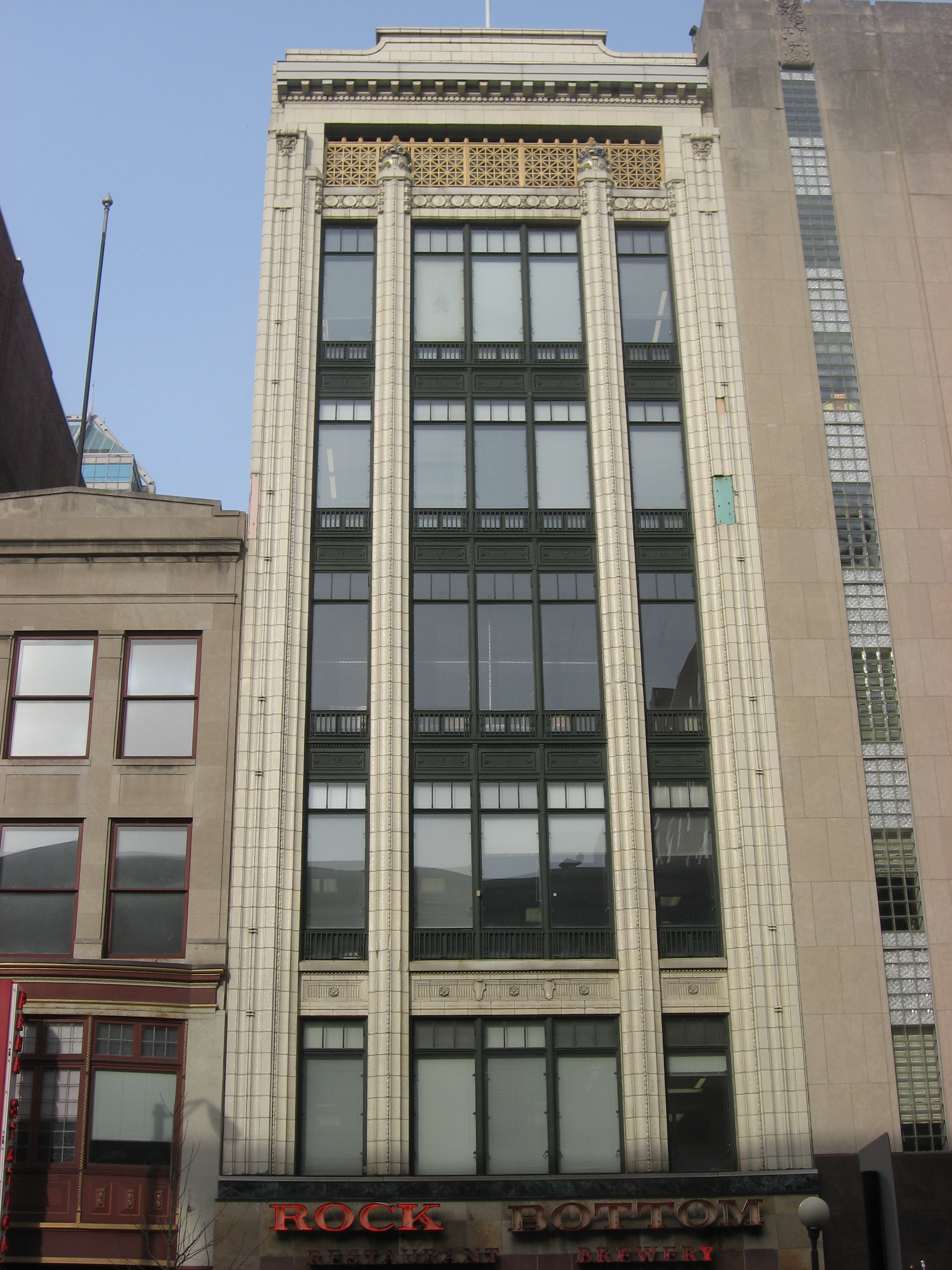 Front of the Selig's Dry Goods Company Building, located on the northwestern corner of the junction of Meridian and Washington Streets in downtown Indianapolis, Indiana, United States. Built in 1924 and currently the home of a Rock Bottom Brewery, it is listed on the National Register of Historic Places, and it is a part of the Register-listed Washington Street-Monument Circle Historic District.